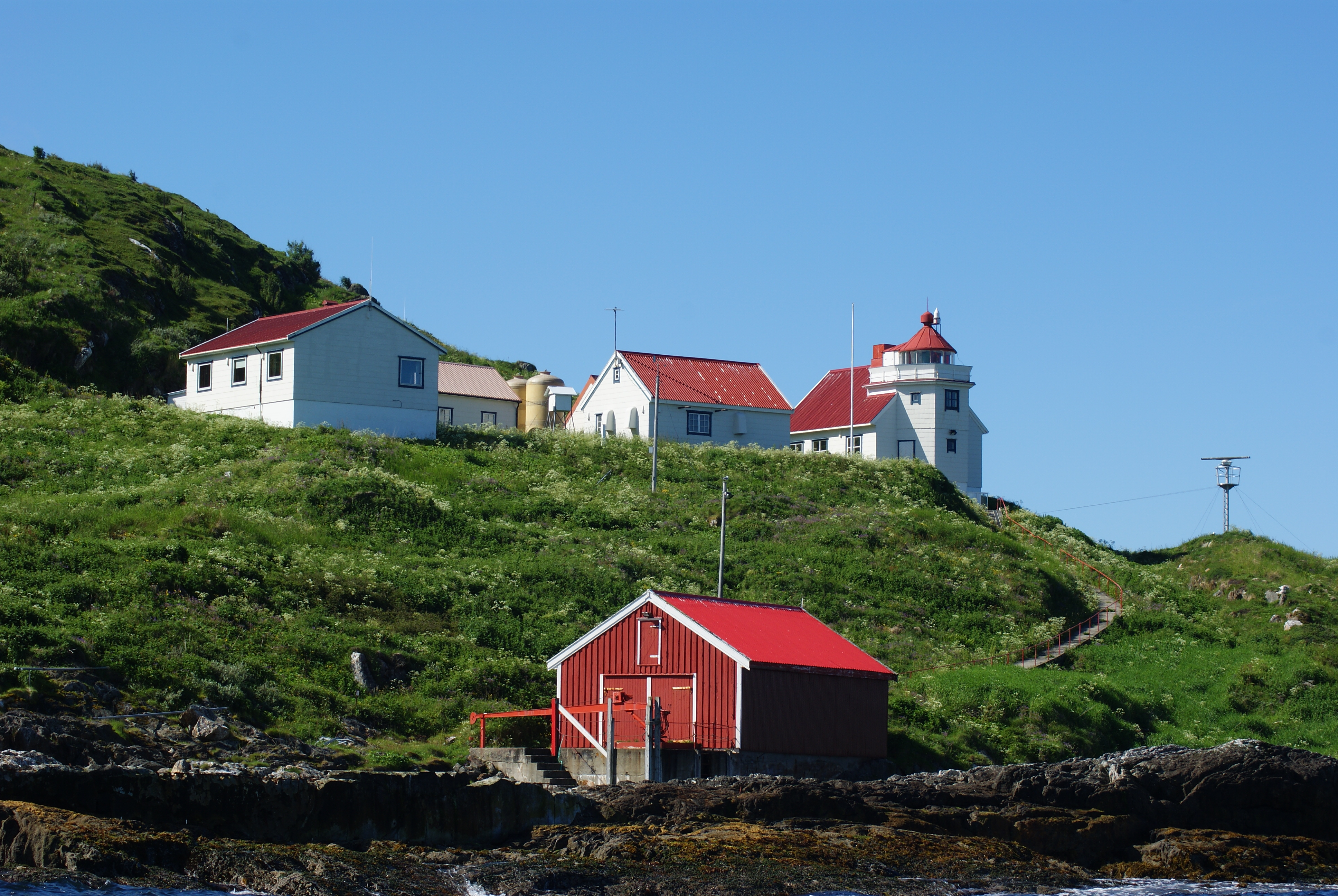 Overview picture of Hekkingen in Lenvik Municipality